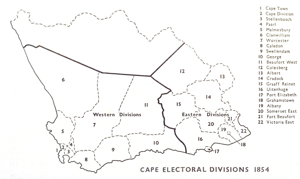 Map of the 1854 Cape electoral divisions showing the 2 legislative council provinces and the 22 legislative assembly districts. Cape Archives. Early maps of Cape Colony.